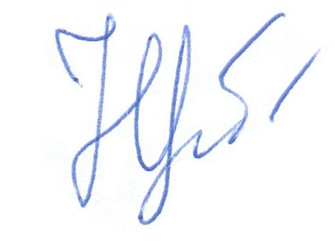 Signature of Julia Teunikova